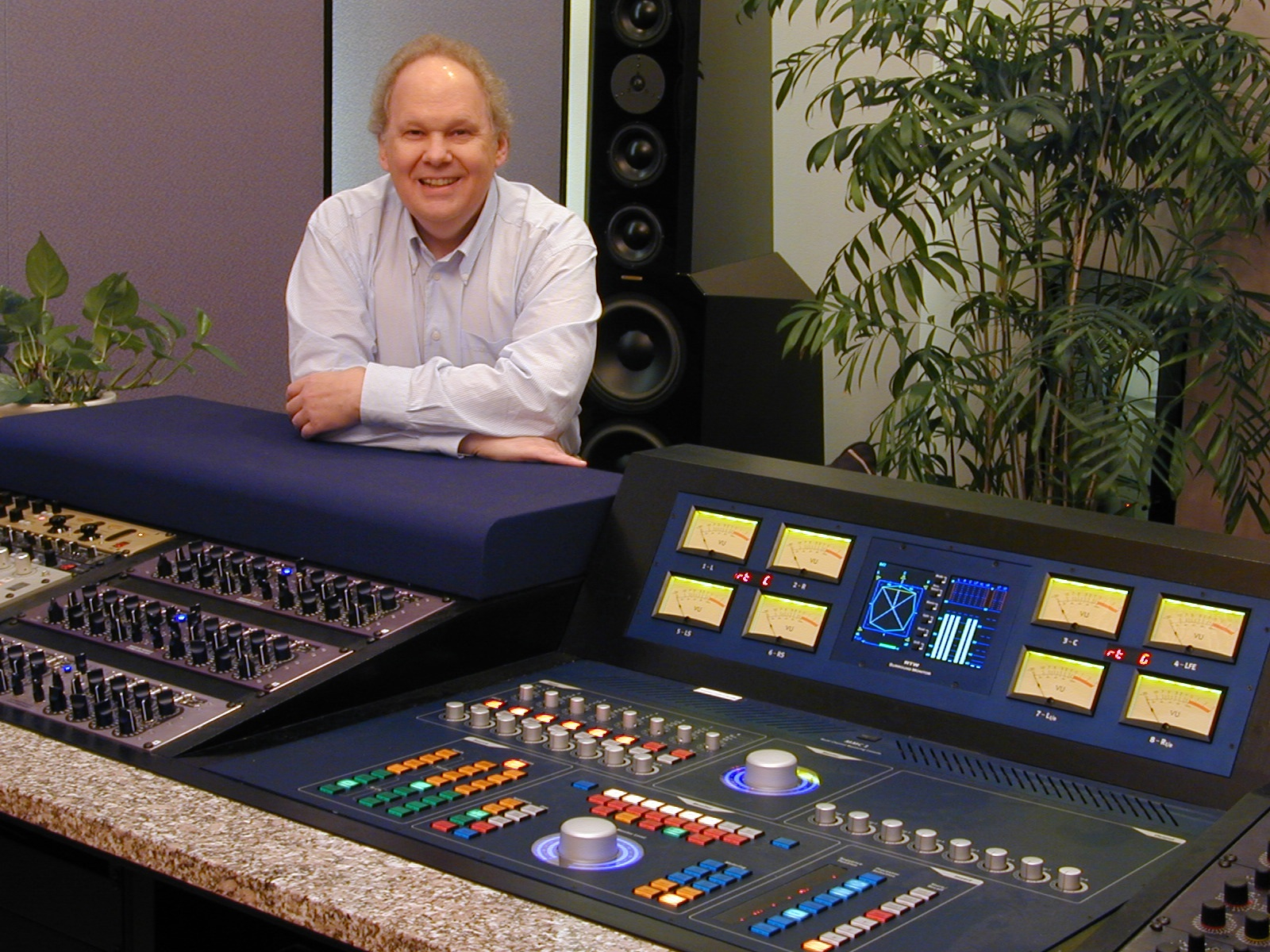 Bob Ludwig, President of Gateway Mastering Studios in his studio, Portland, Maine Console: SPL (Sound Performance Lab) MMC 1 Multichannel Mastering Console Outboards MANLEY Massive Passive EQ (×3) SPL (Sound Performance Lab) TUBE-VITALIZER #9530 ... Monitor: Eggleston Works Ivy Reference